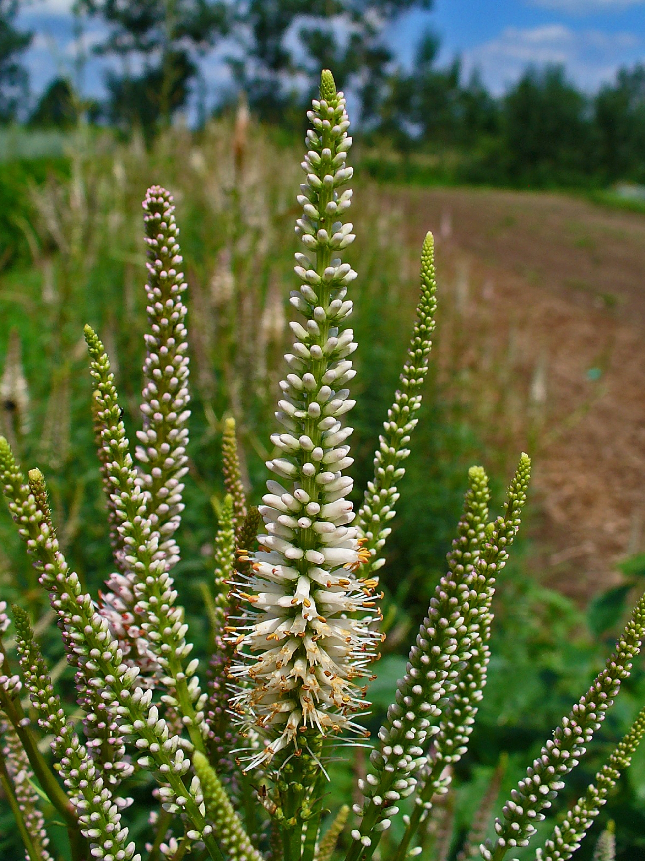 Veronicastrum virginicum, Plantaginaceae, Culver's Root, Culverpsyic, Culver's Physic,Bowman's Root,Blackroot, inflorescence.